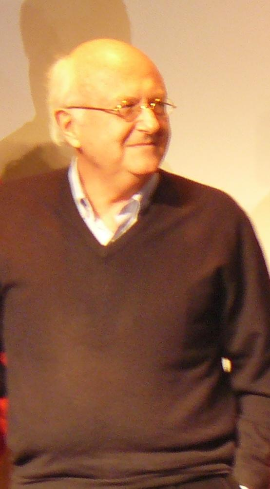 Short film jury at Fantastic'Arts 2009 : François Vincentelli, Vladimir Cosma, Julie Ferrier, Mabrouk El Mechri and Leila Bekhti